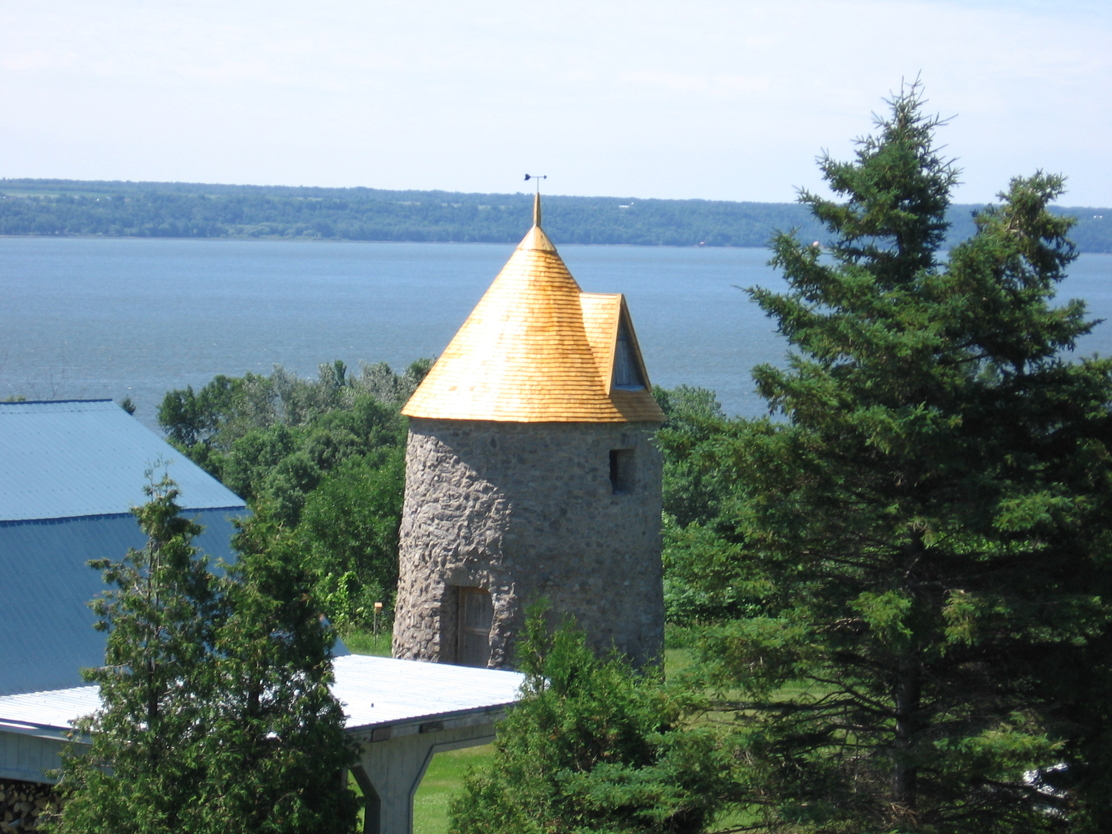 Old mill in Neuville